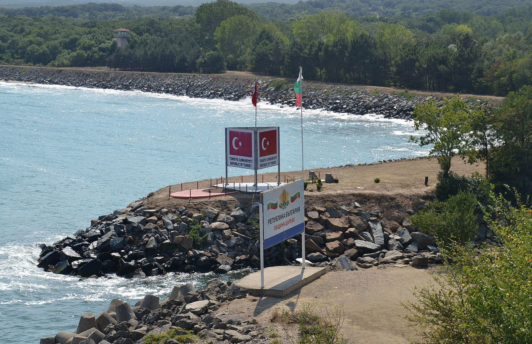 Rezovo, Bulgaria - border with Turkey